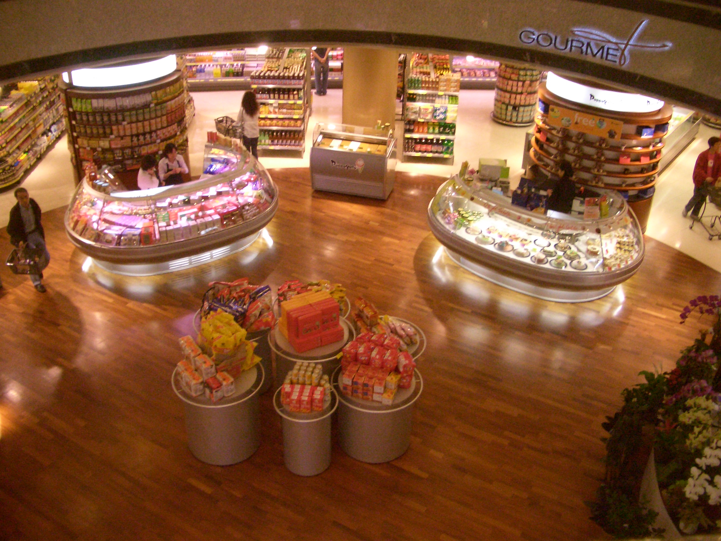 Gourmet at The Lee Gardens